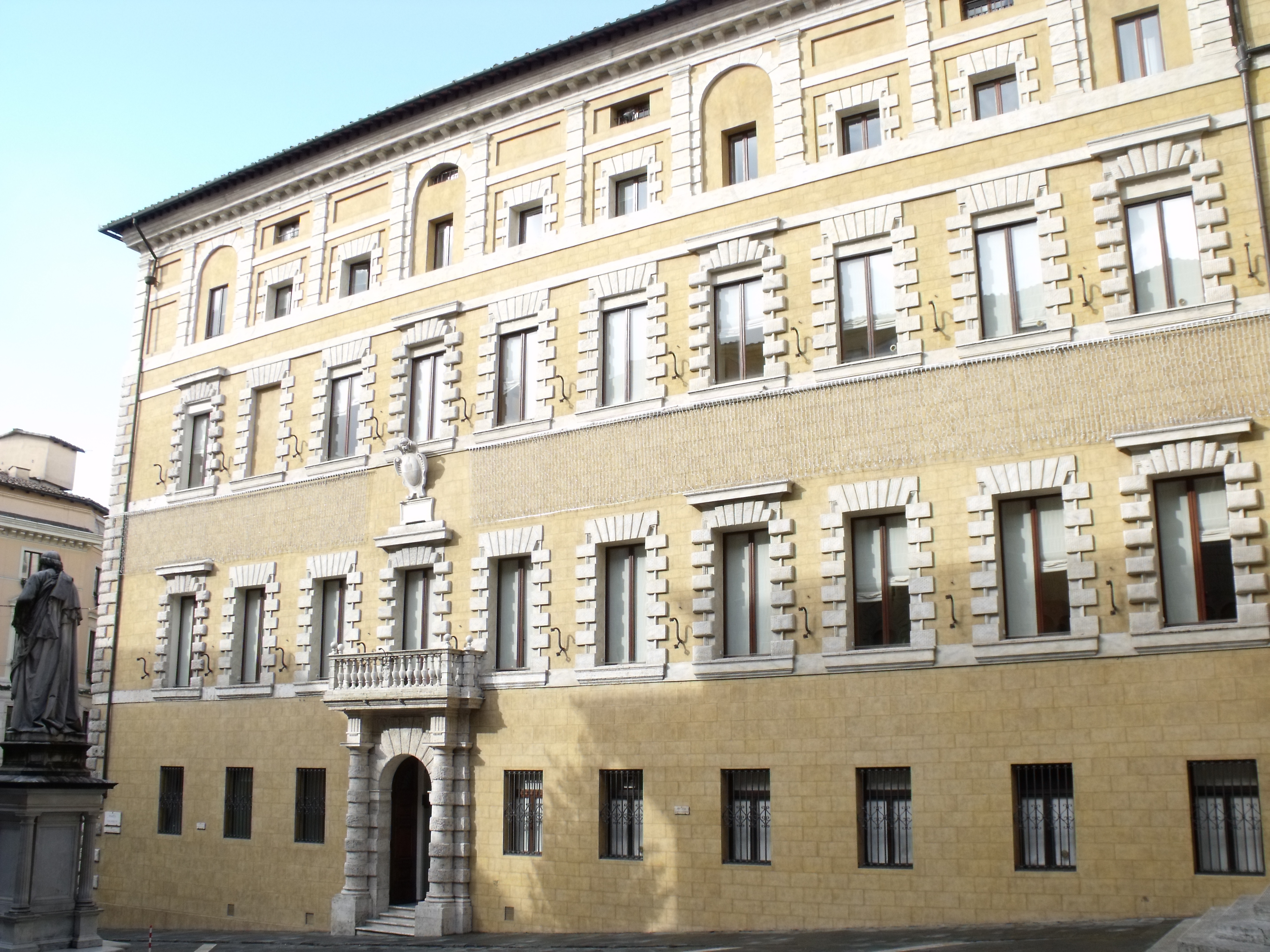 The Palazzo Tantucci (alla Dogana) on Piazza Salimbeni in Siena, Tuscany, Italy